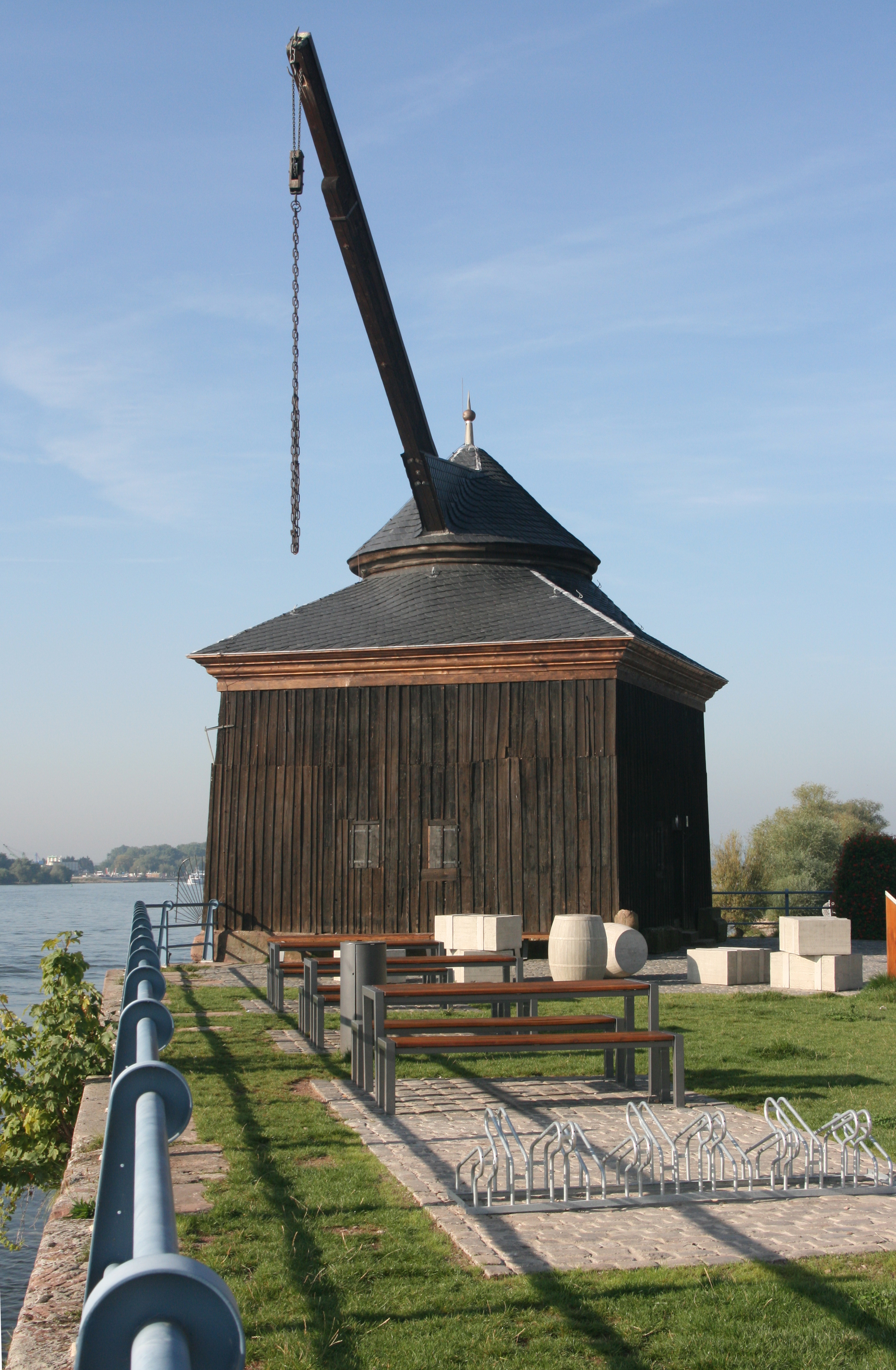 Oestricher Kran, a former wine-loading crane from 1744 in Oestrich, Germany